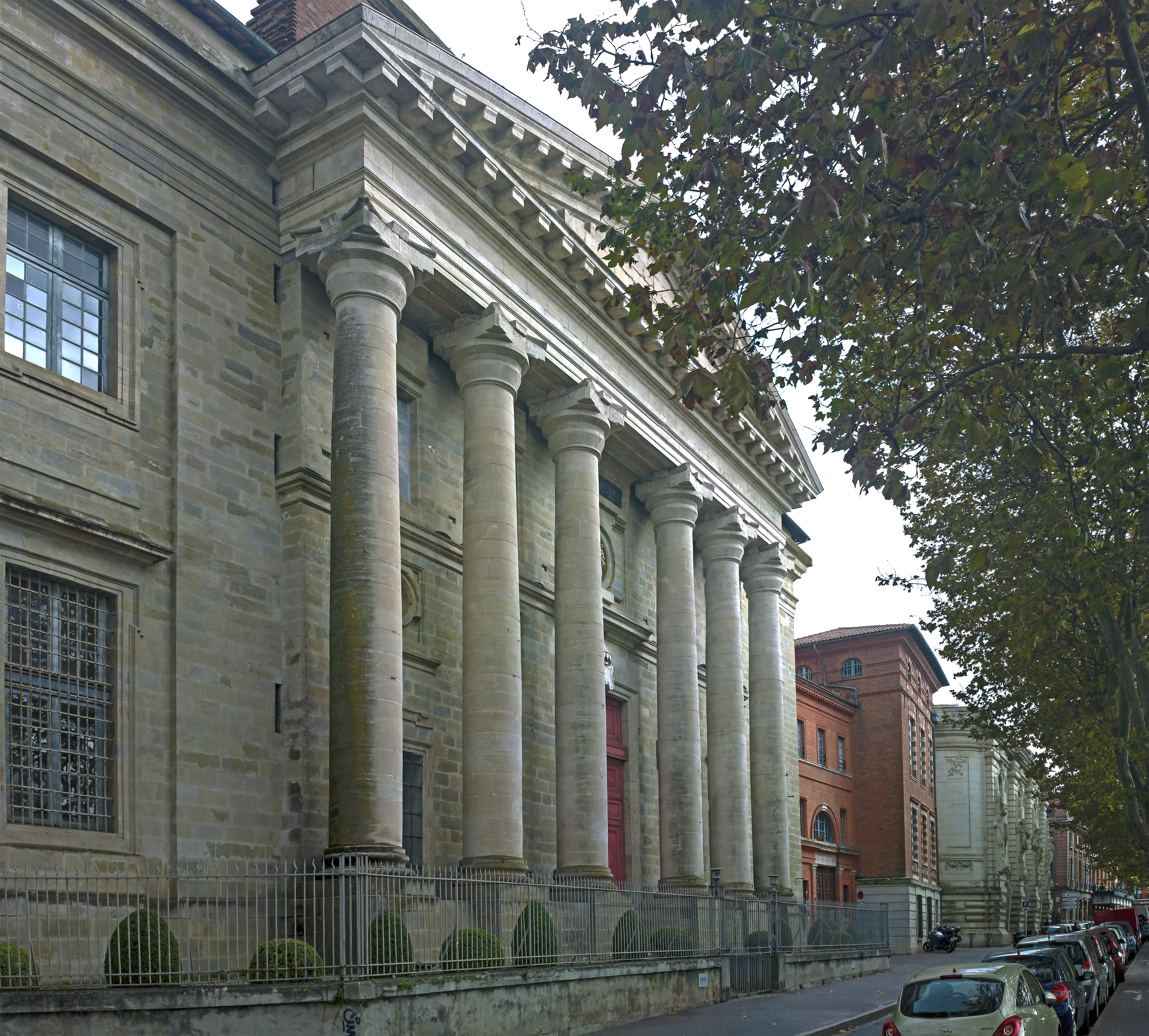 Basilica of Notre-Dame de la Daurade in Toulouse, facade